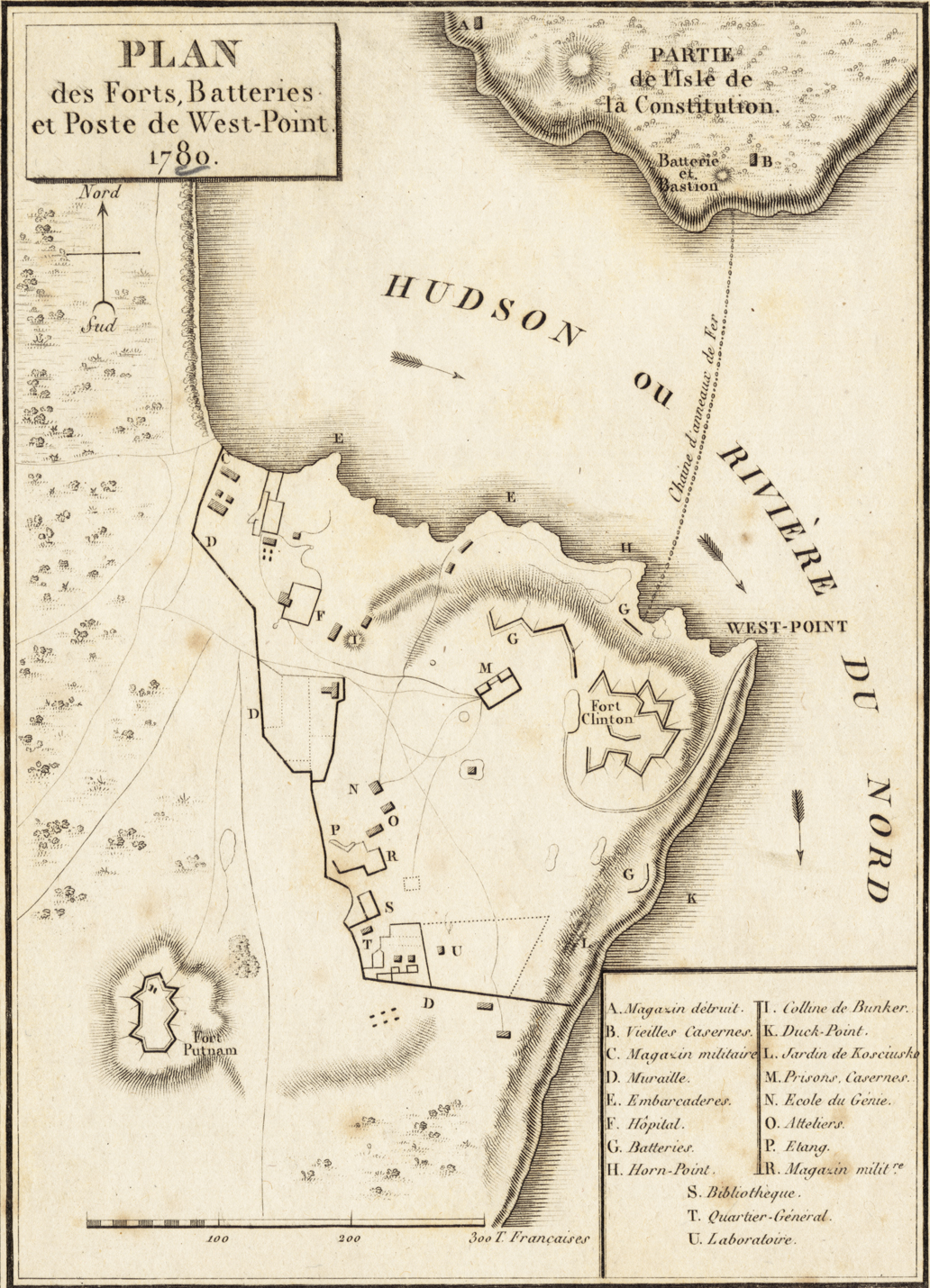 Zoom into this map at . Publisher: P. Didot Date: [1816] Location: West Point (N.Y.) Scale: Scale [ca. 1:13,000]. Call Number: G3804.W53S3 1816.P5